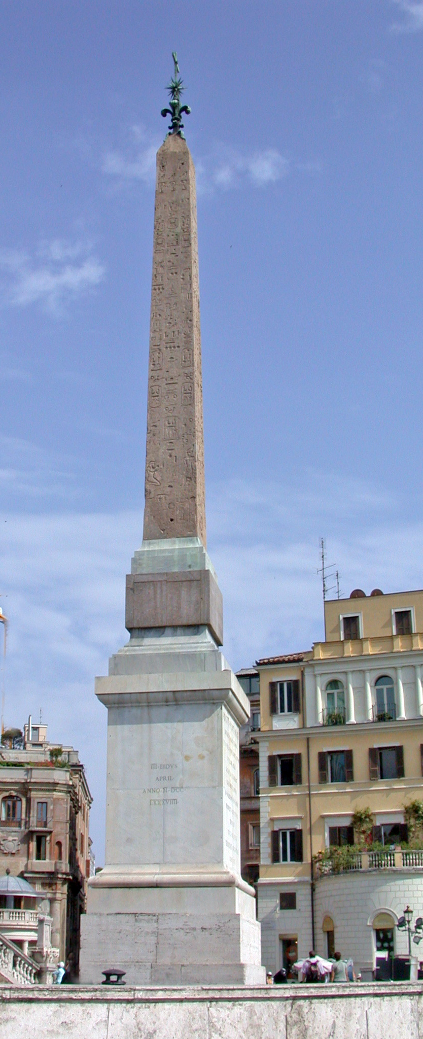 Rome, obelisk in top of Spanish Stairs, in front of the church of Trinità dei Monti ("Obelisco Sallustiano").